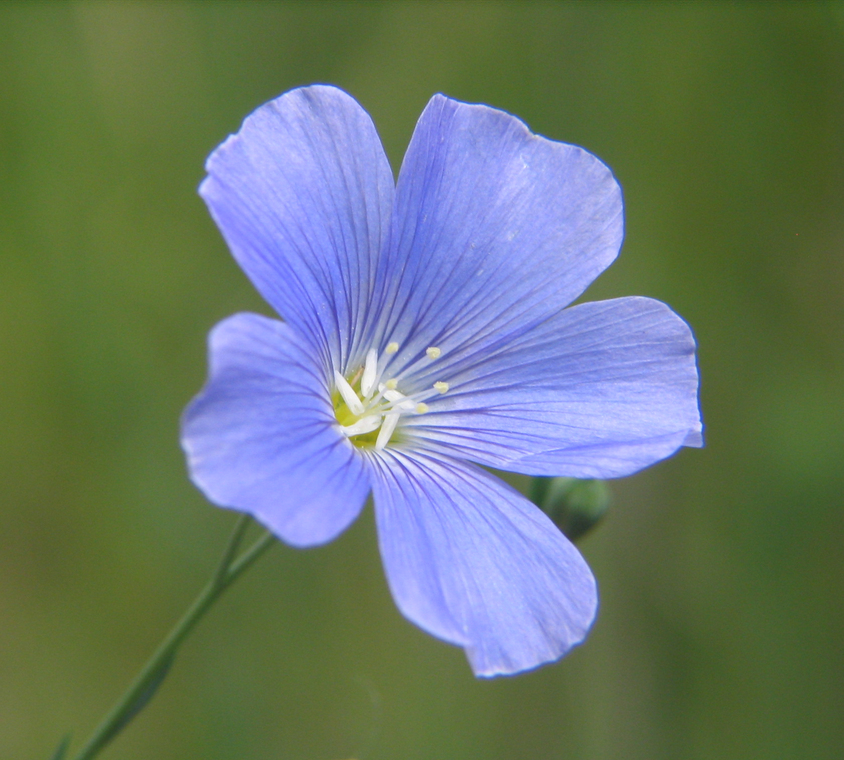 linum usitatissimum